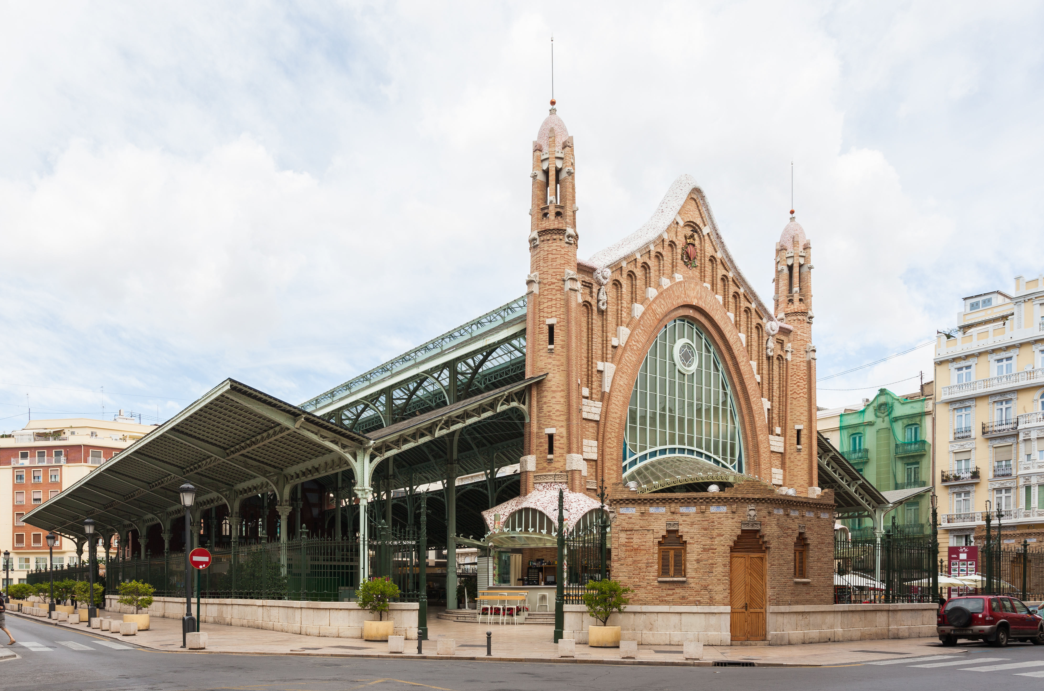 Columbus Market, Valencia, Spain